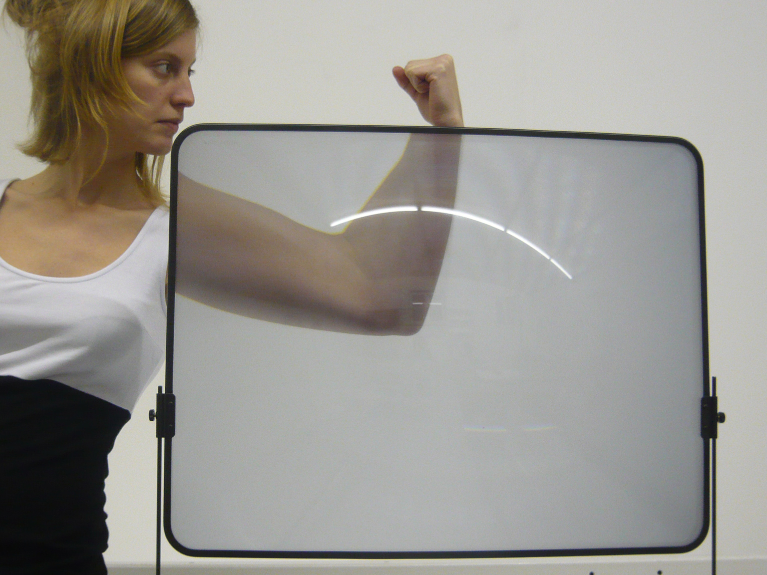 model showing a magnifying Fresnel lens commercialized in the 1980s as a device to place before small TV screens to make the objects they display appear bigger. Rotor DB (talk) 23:14, 18 February 2009 (UTC)